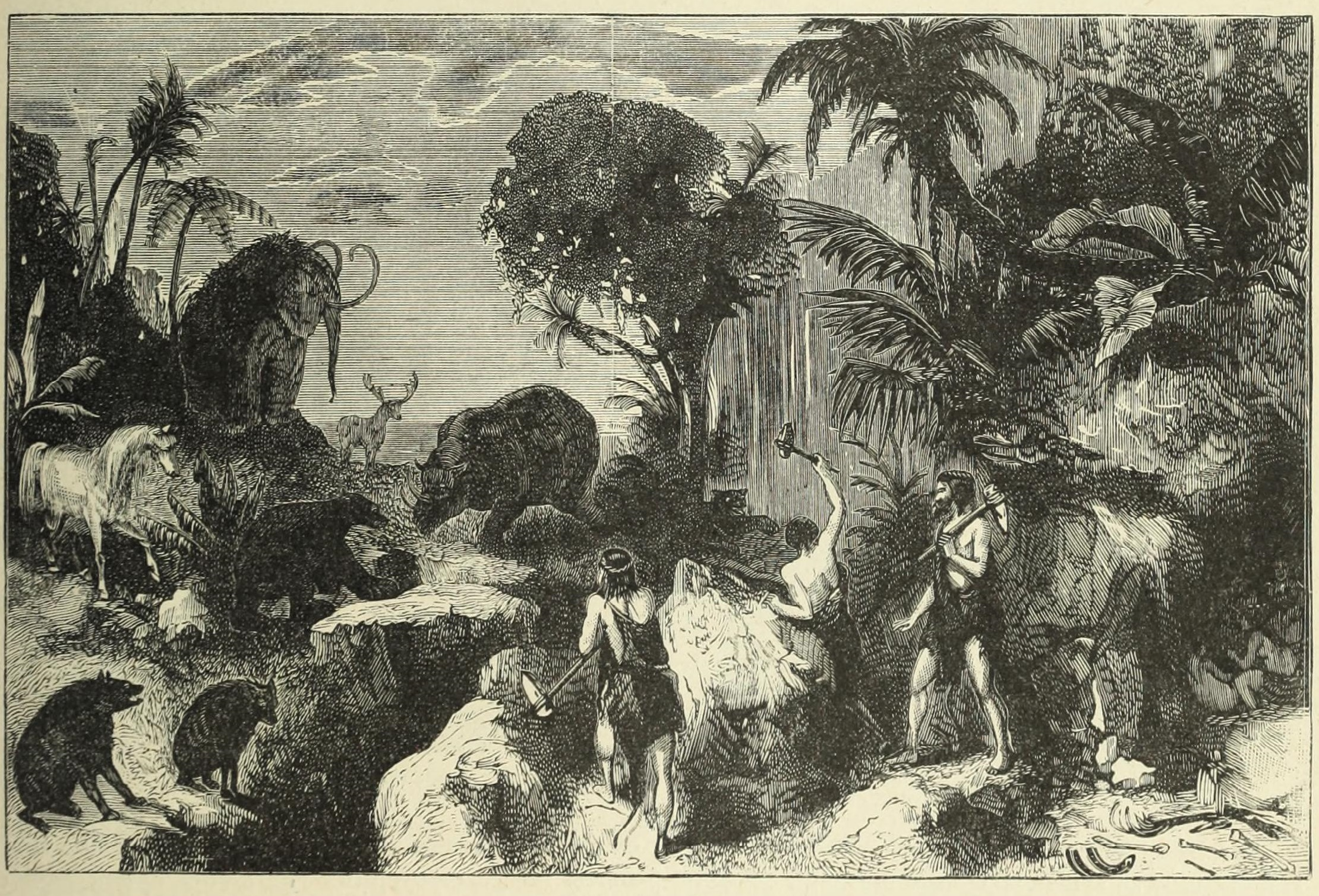 The world: historical and actual. What has been and what is. Our globe in its relations to other worlds, and before man. Ancient nations in the order of their antiquity. The middle ages and their darkness. The present peoples of the earth in their gradual emergence from barbarism into the sunlight of to-day, and as they now stand upon the plane of civilization .. by Gilbert, Frank Published 1882 Topics History (General) SHOW MORE Publisher St. Louis : R.S. Peale & Co. Pages 732 Language English Call number 909 G37W1882A Digitizing sponsor University of Illinois Urbana-Champaign Alternates Book contributor University of Illinois Urbana-Champaign Collection university_of_illinois_urbana-champaign; americana